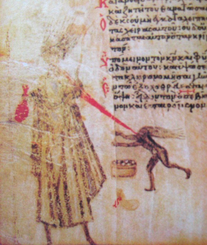 A sinner, John VII of Constantinople, with purses and devil. Chludov Psalter